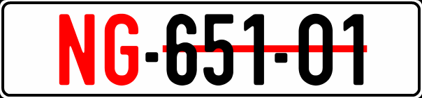 Diplomatic license plate from Viet Nam